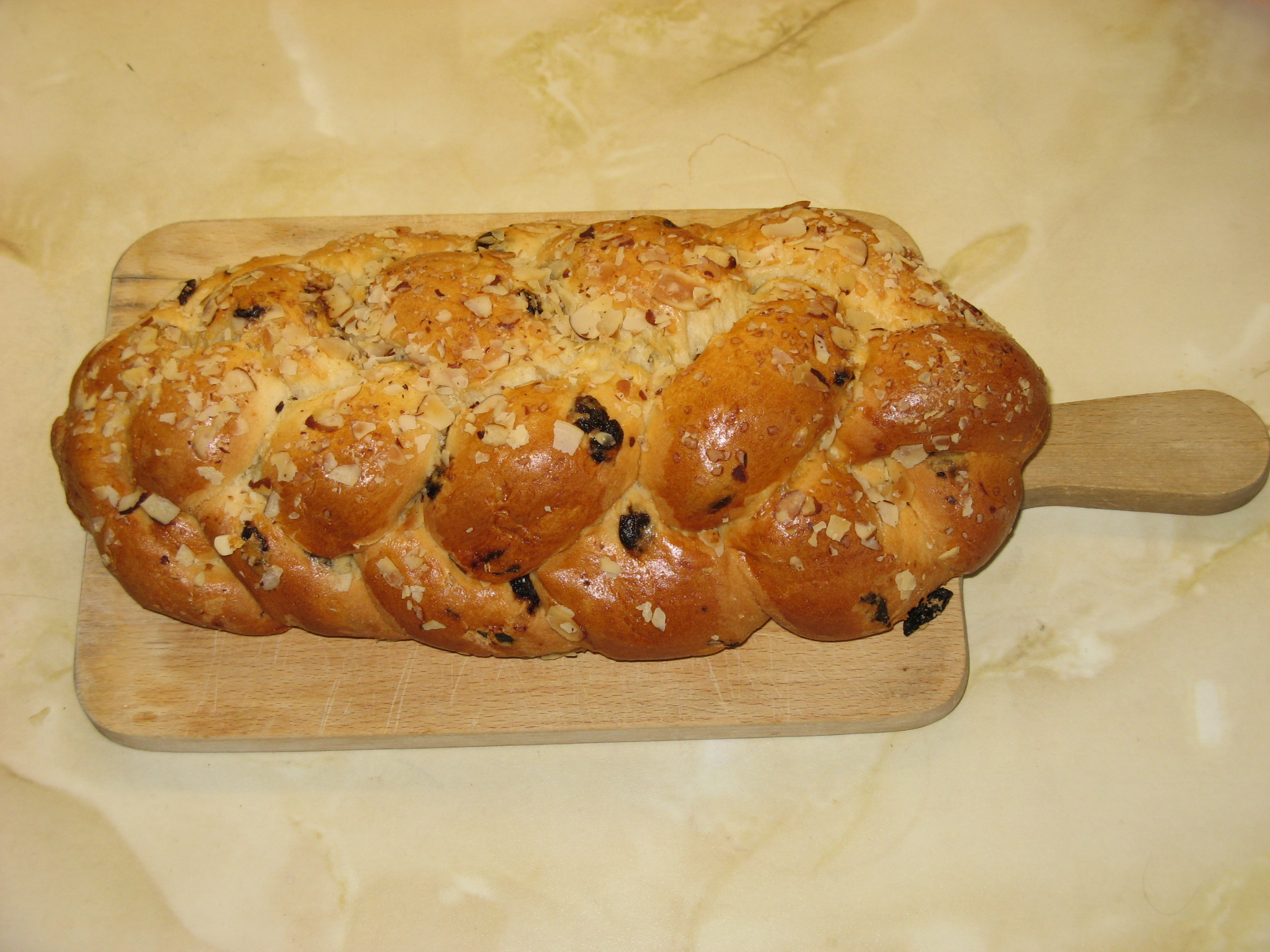 Czech Christmas cake (Vánoce is Christmas).